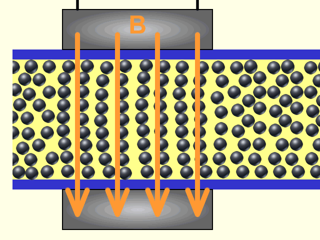 A static cropped version of the animated GIF File:MRF-Effekt.gif, to be used in the Wikipedia Magnetorheological fluid article.